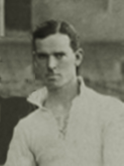 Samuel Challinor - Brentford FC - 1920-21. Cropped from an unmarked team postcard.